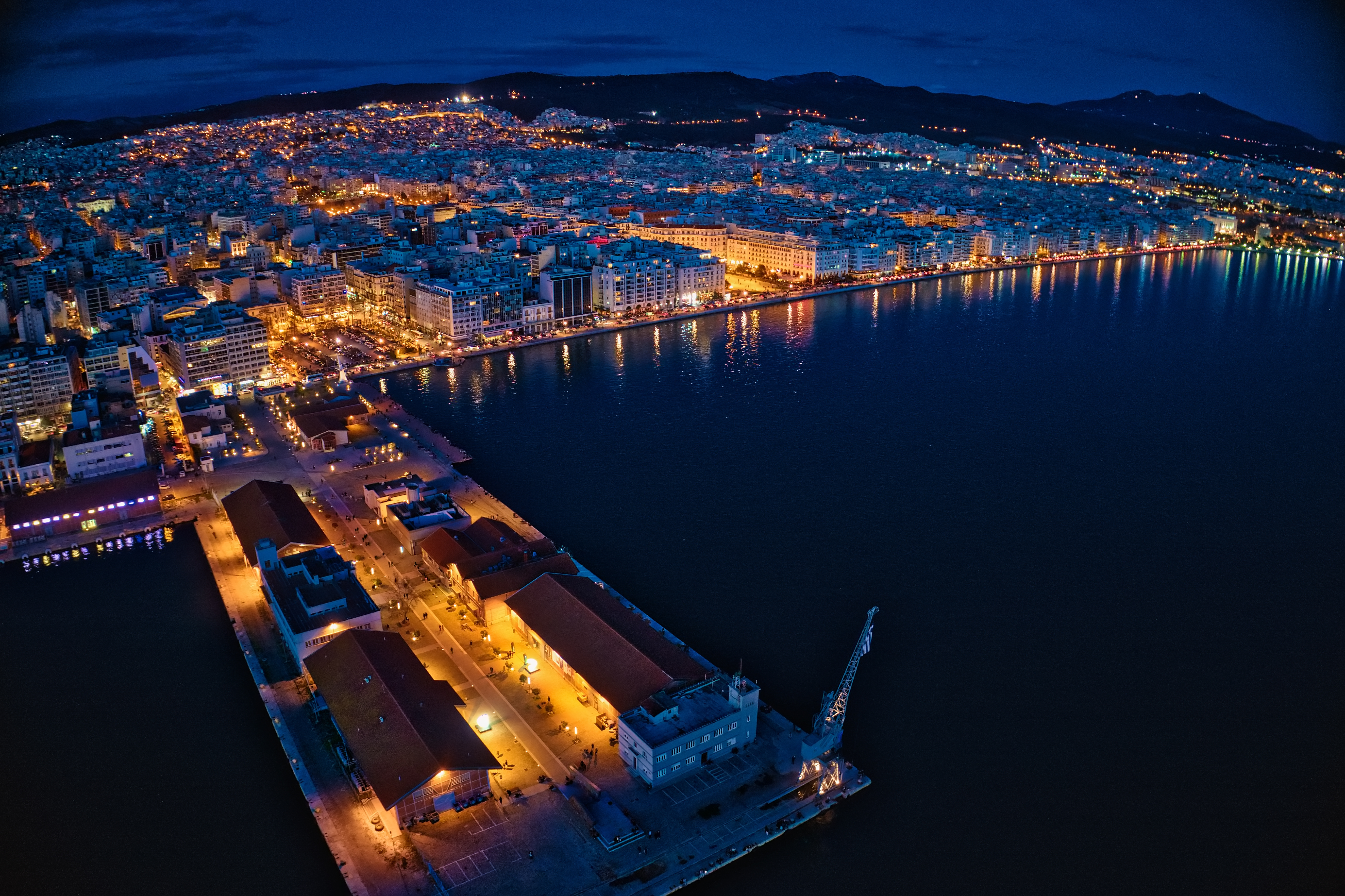 Aerial view of harbor and city Thessaloniki at night, Greece. Image taken with action drone camera causing distortion and blur.